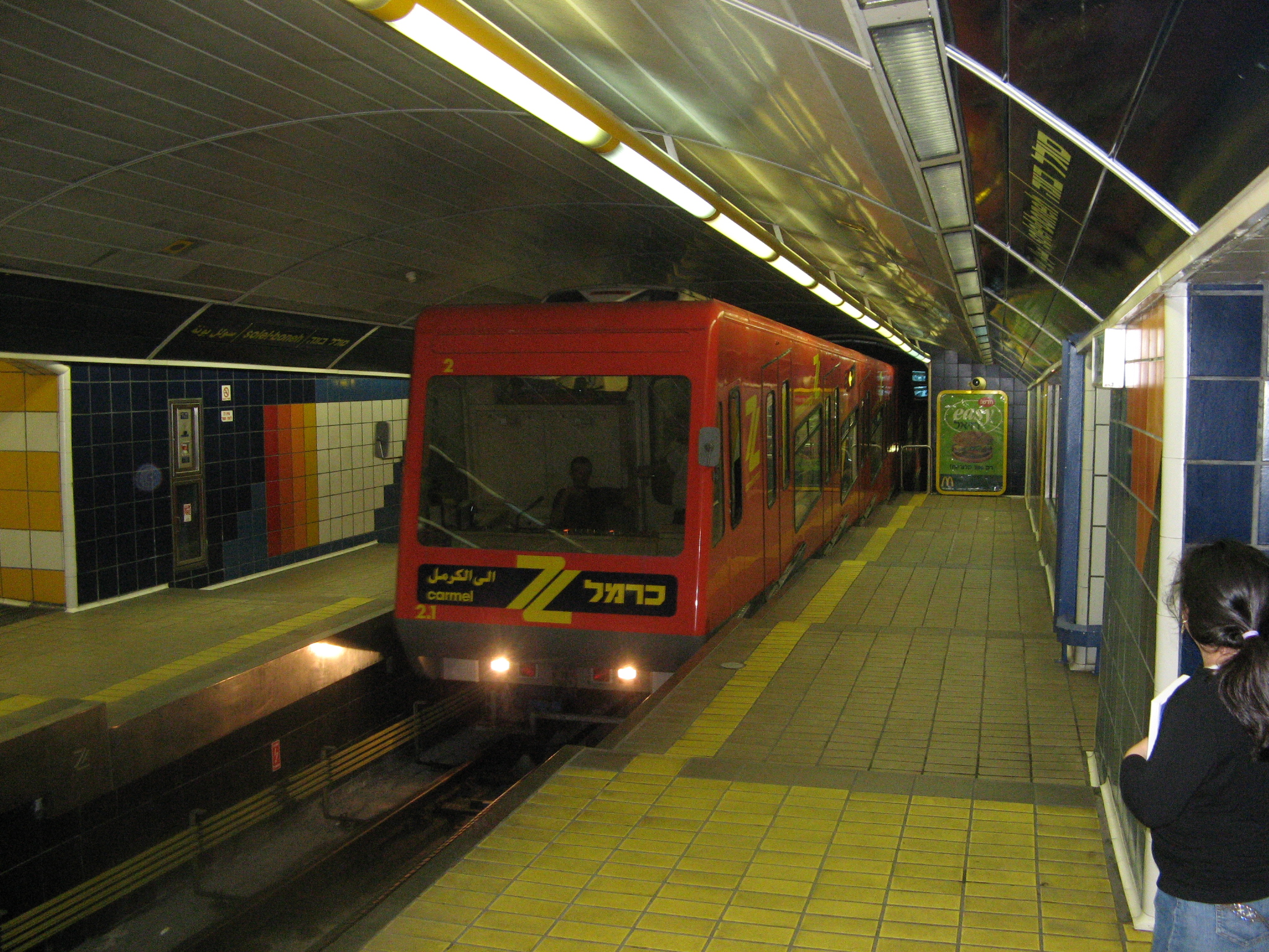 Carmelit entering the station